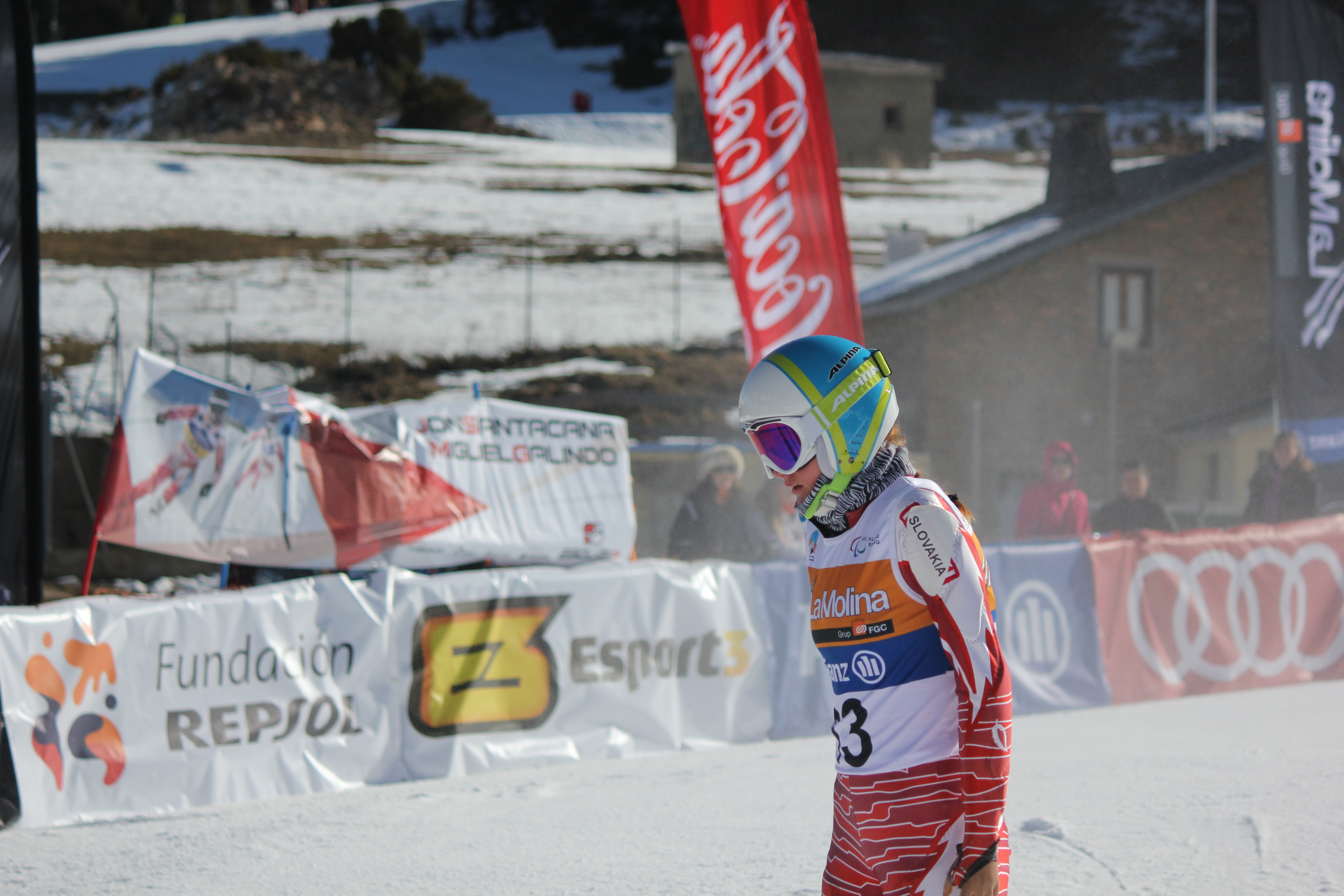 IPC Alpine World Championships. Super/G event in the women-s standing group. Petra Smarzova of Slovakia.